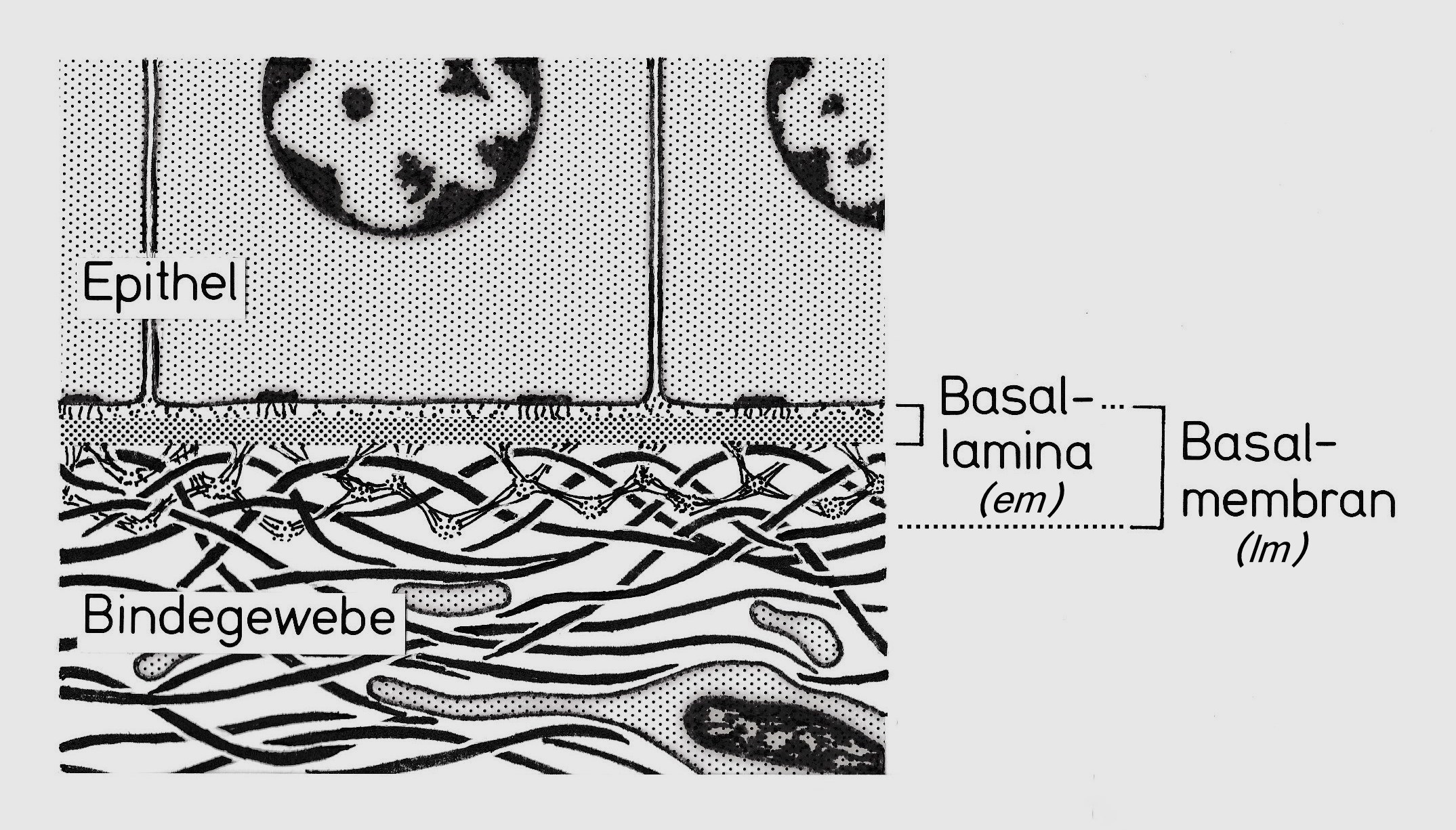 Scheme of the basement membrane between epithelium and connective tissue